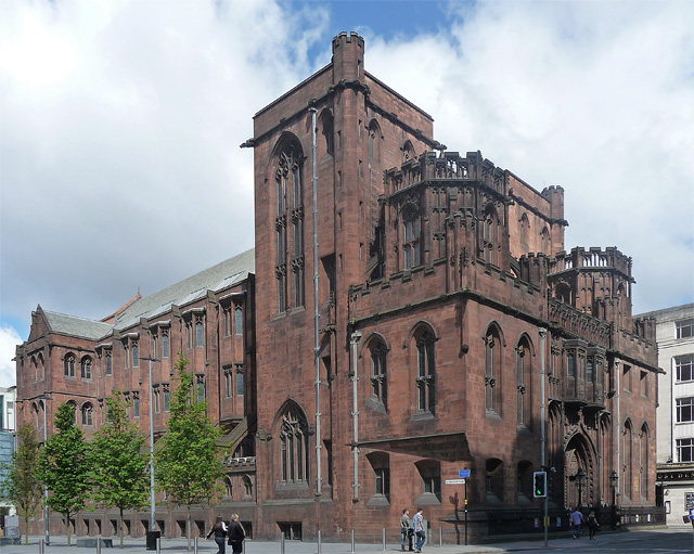 Built in 1890-1900 by Basil Champneys at the request of Enriqueta Rylands in memory of her late husband John Rylands, a wealthy cotton merchant in Manchester